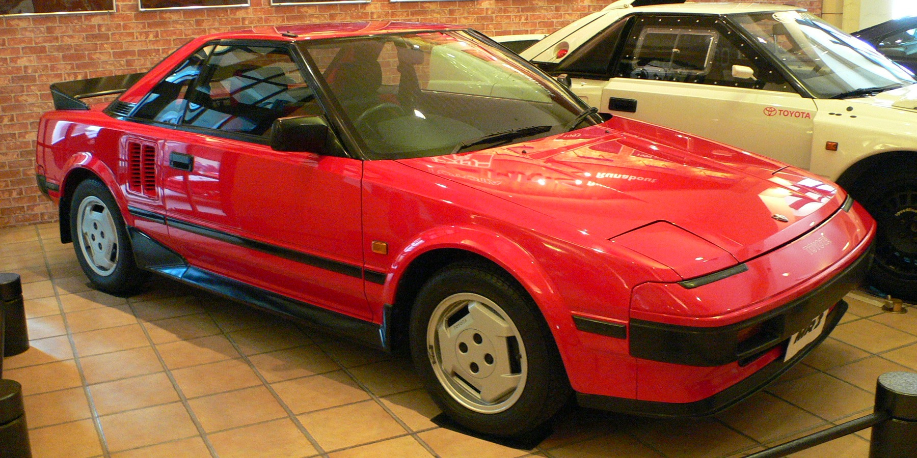 Toyota_MR2 (1984 - 1986) photographed in MEGAWEB